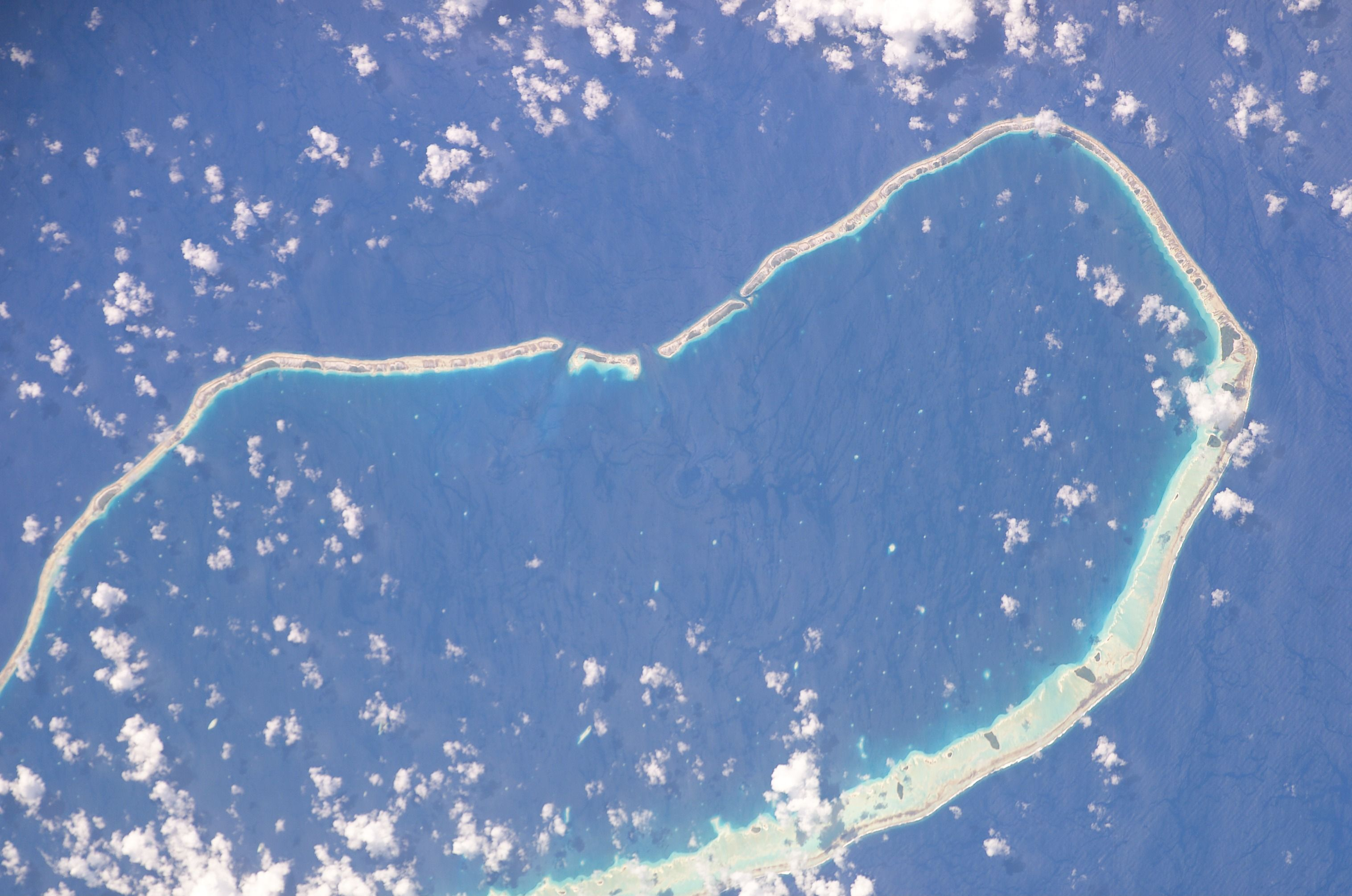 NASA astronaut image of Tahanea Atoll (Tuamotu Archipelago, French Polynesia) in the Pacific Ocean